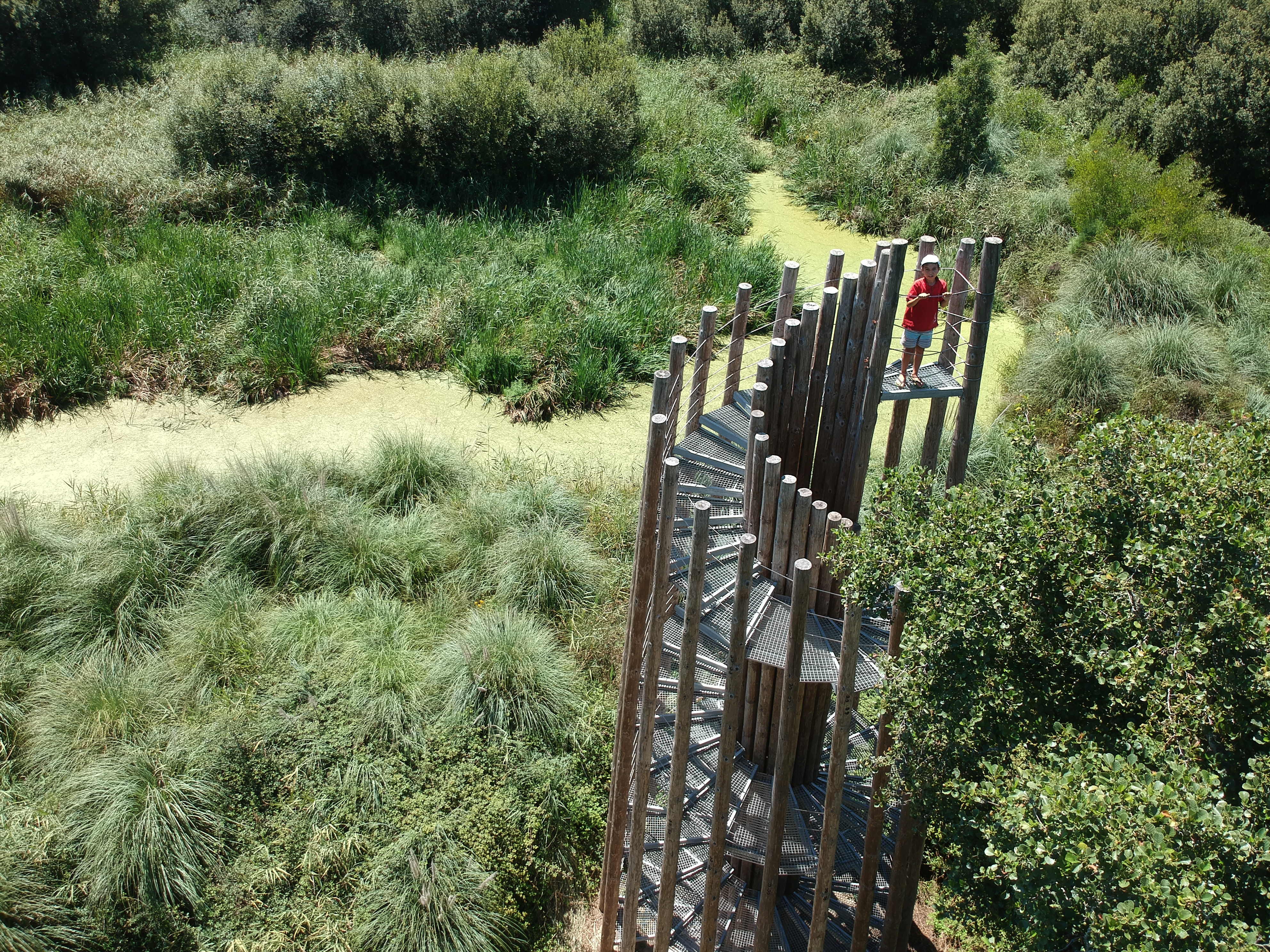 Aerial photograph of Lagoa da Apúlia Portugal.